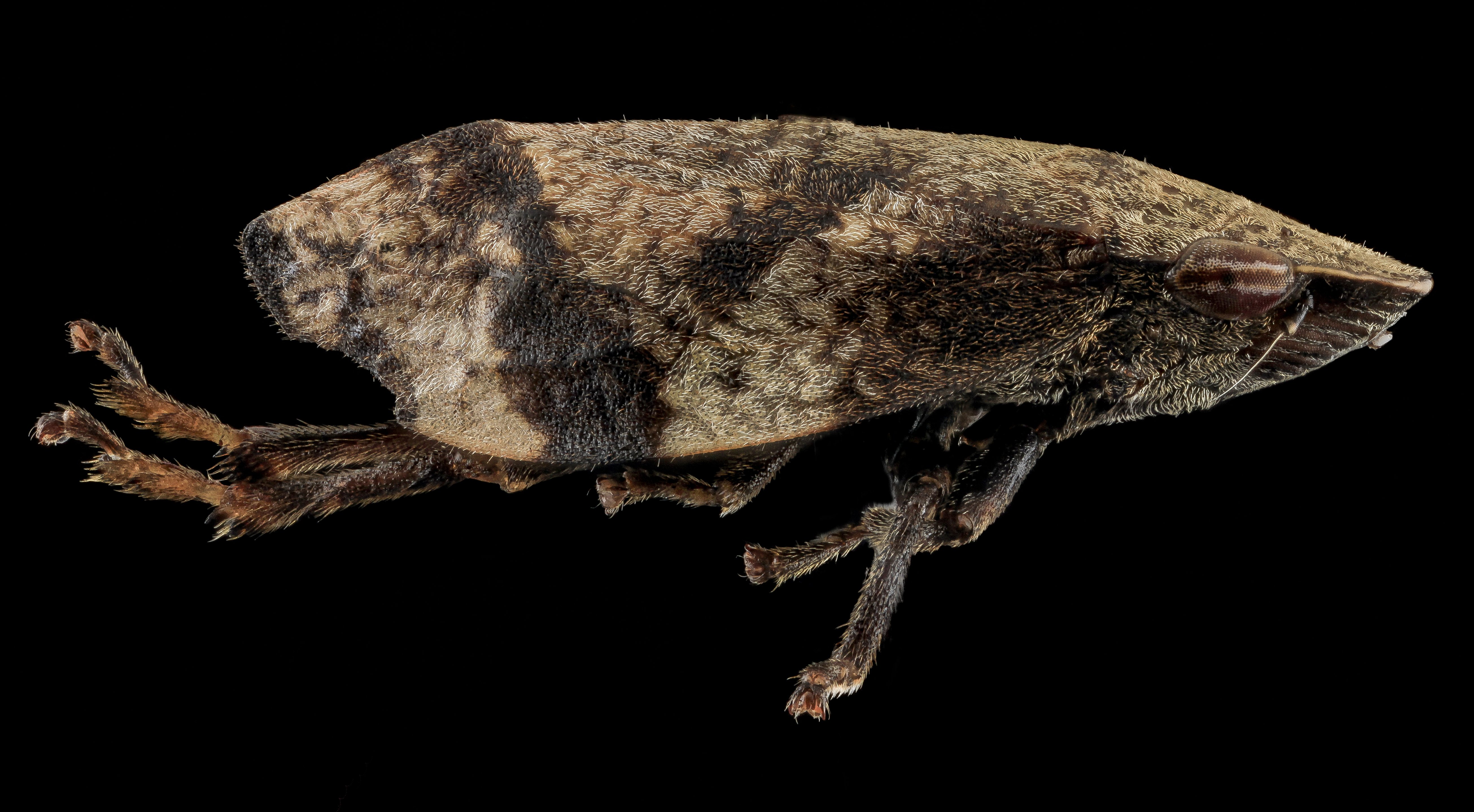 Lepyronia angulifera. A study of proportions, particularly the area around the eye, this Angulate Spittlebug was captured in Upper Marlboro, Maryland Canon Mark II 5D, Zerene Stacker, Photographer: Sam Droege, 65mm Canon MP-E 1-5X macro lens, Twin Macro Flash, F5.0, ISO 100, Shutter Speed 200